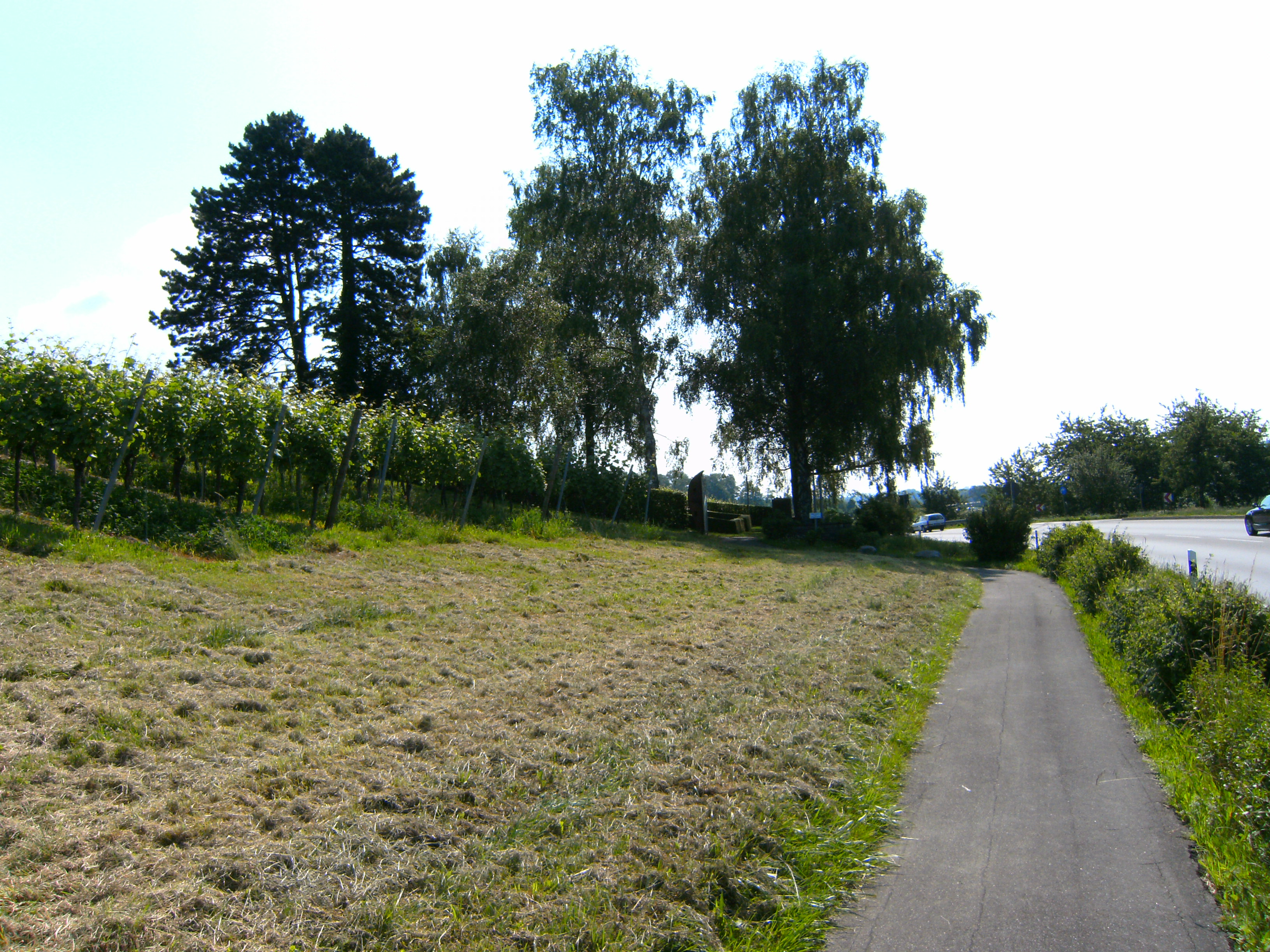 Foot path to the International concentration camp cemetery in Birnau, Germany along Bundesstraße 31